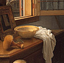 Detail from the painting "Barber surgeon tending a peasant's foot" (1649-1650). According to the website of the Peabody Essex Museum, these are barber tools